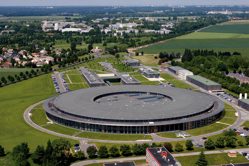 Aerial view of Synchrotron SOLEIL site